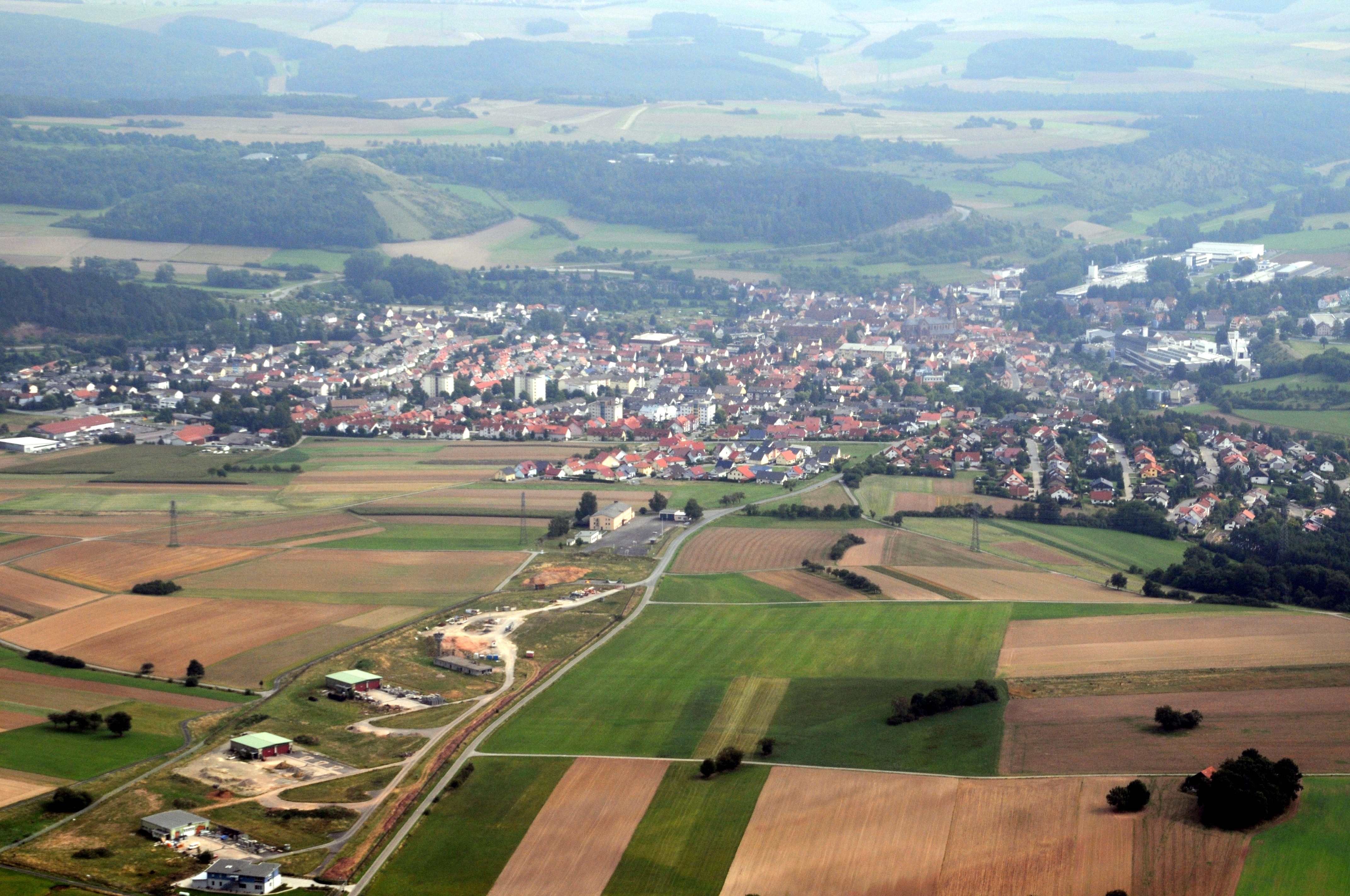 Hardheim, Baden-Württemberg, Germany, aerial photograph